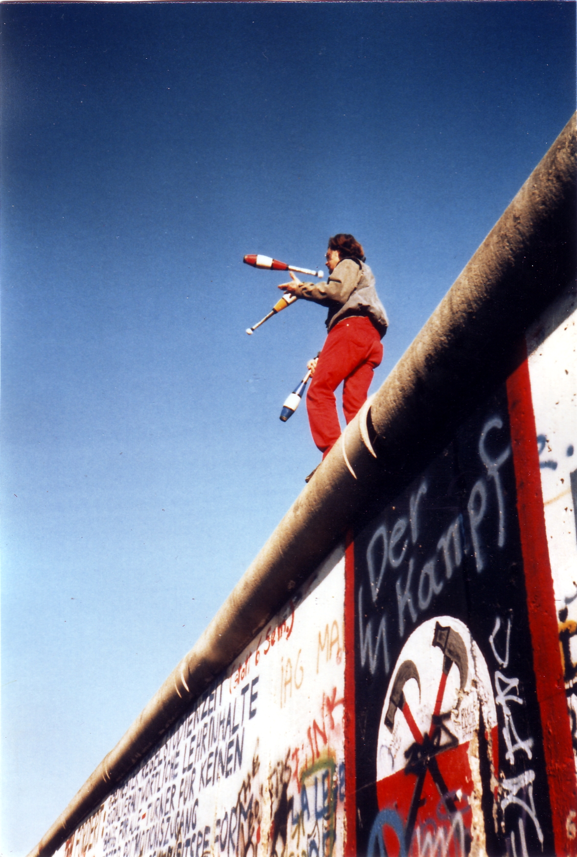 Juggling on the Berlin Wall on 16. November 1989.